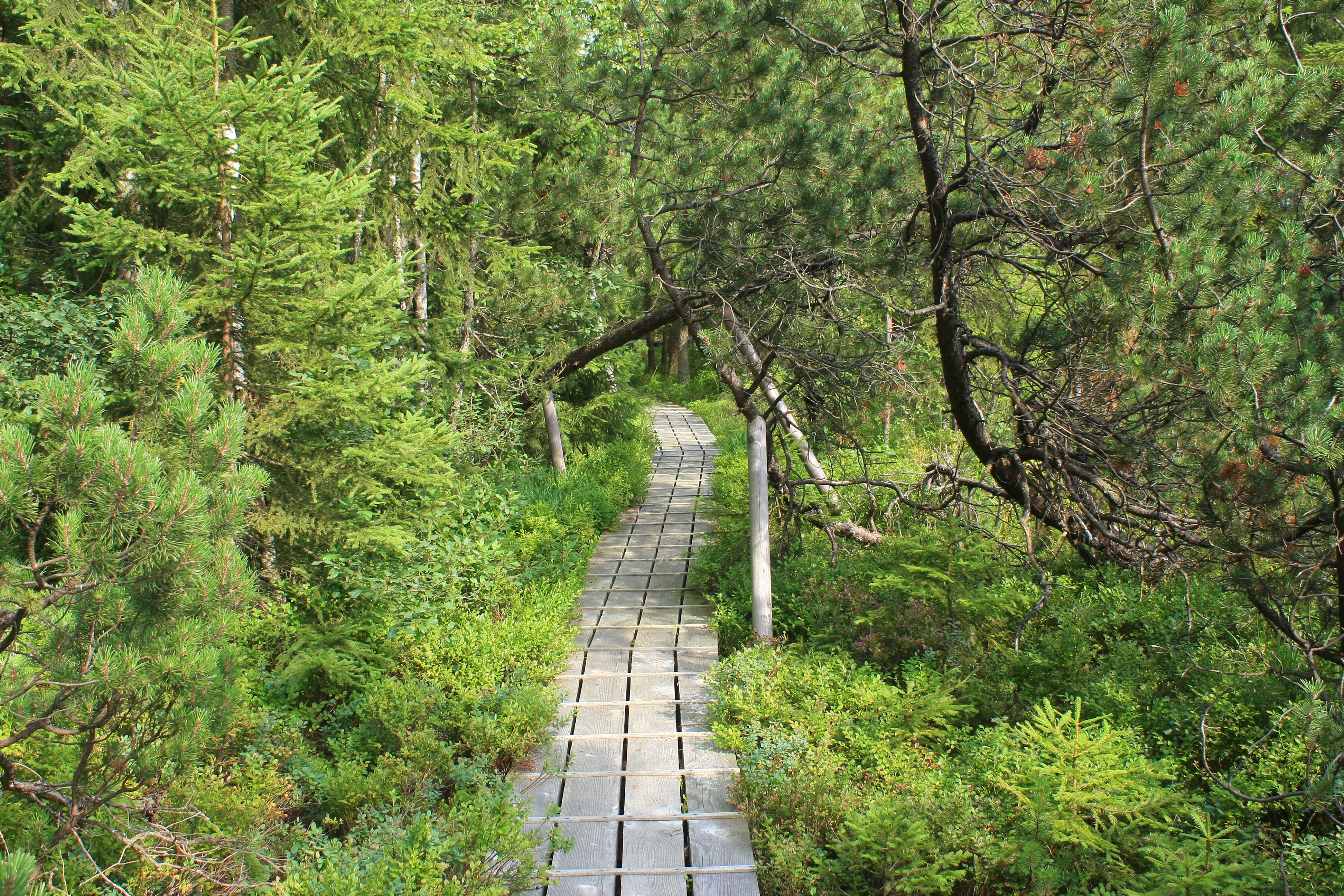 Großer Filz, Pinus mugo, Bavarian Forest Nationalpark